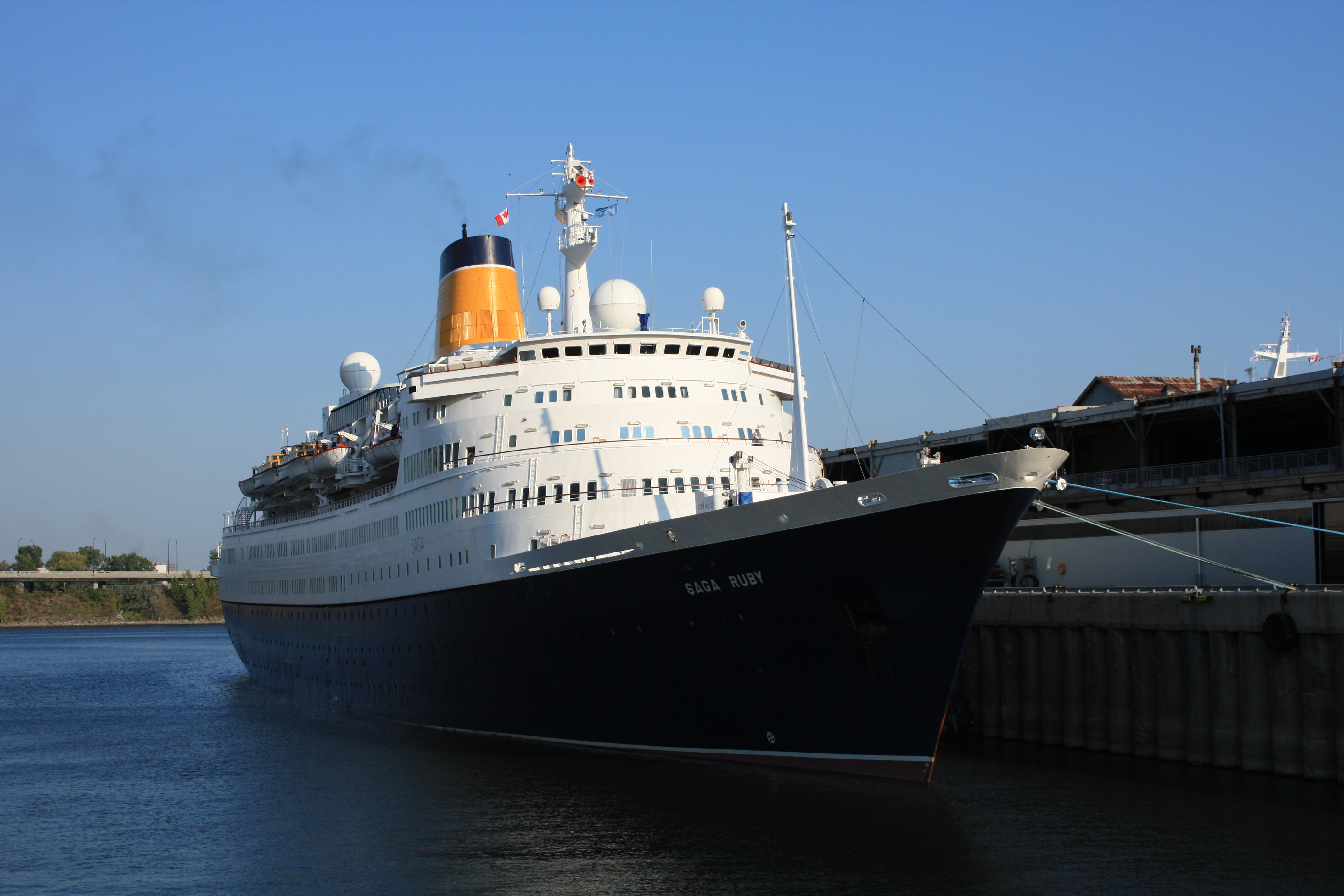 MS Saga Ruby in Montreal Old Port.